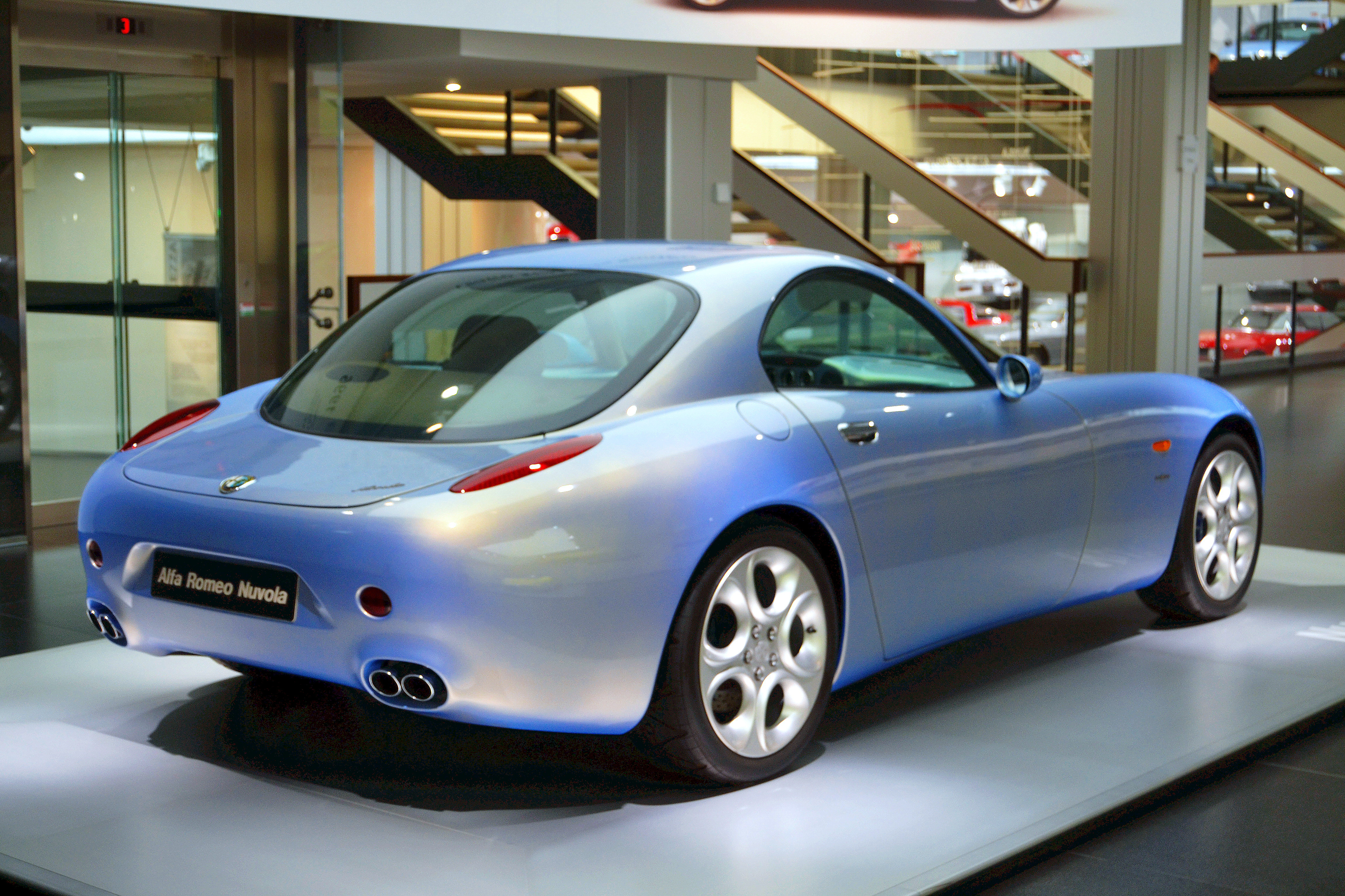 Concept Car Alfa Romeo Nuvola, Shown at the Museo Storico Alfa Romeo in Arese, Milano, Italy